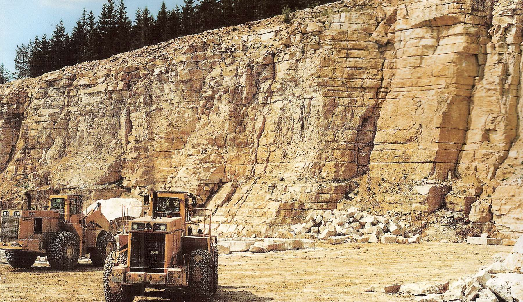 Quarry Rothenstein III. Mining of Jura-limestone.